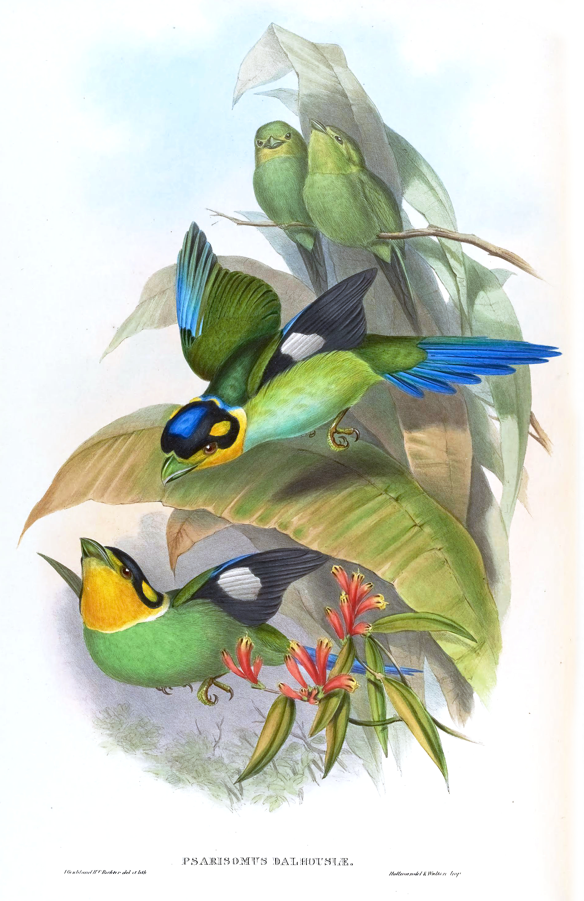 Long-tailed Broadbill Psarisomus dalhousiae (Jameson)